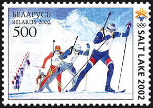 Belarus stamp no. 450, commemorating the 2002 Winter Olympics.